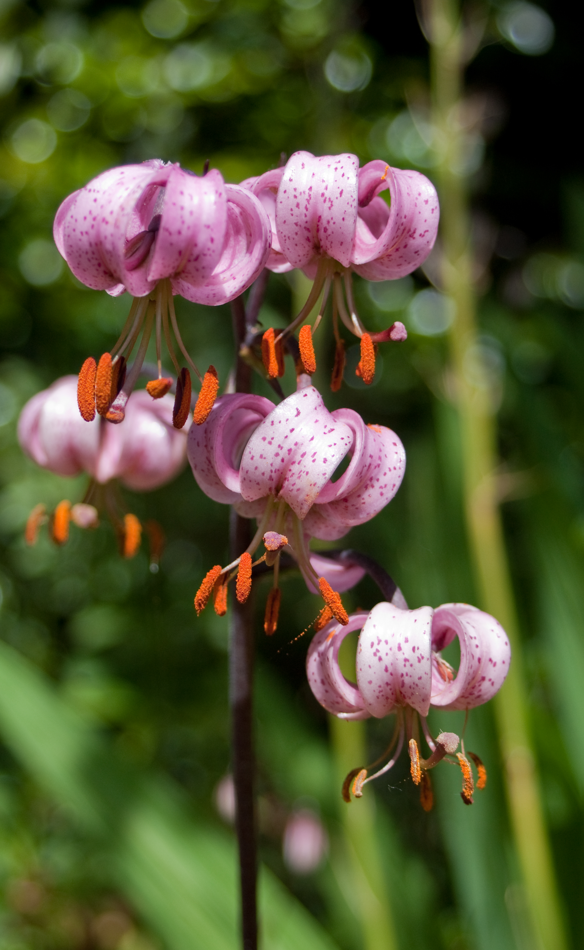 L. martagon (Martagon Lily) photographed in the gardens of Forde Abbey, Somerset, UK.